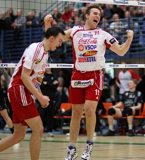 Finland volleyball players Jari Tuominen and Markus Peltonen celebrating season 2007